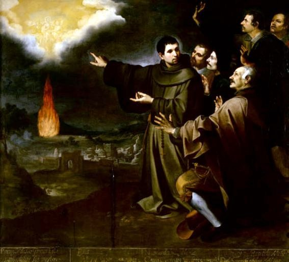 Fray Julián de Alcalá y el alma de Felipe II. 170x187 cm. Williamstown Art Dark Institute.